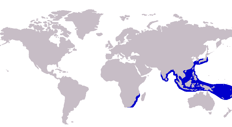 Distribution of shadow trevally, Carangoides dinema using map based on GDFL image